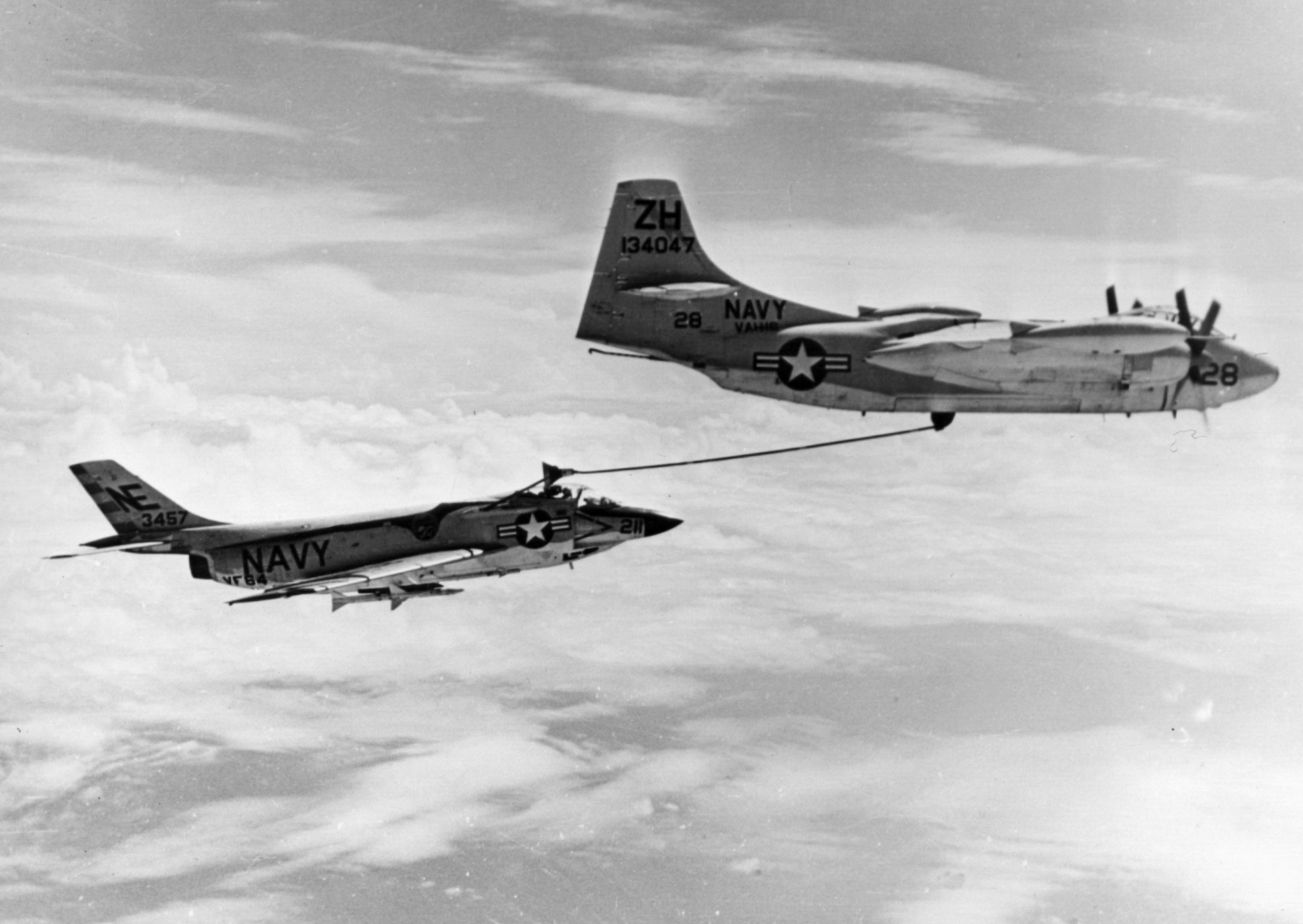 A U.S. Navy North American AJ-2 Savage (BuNo 134047) from Heavy Attack Squadron VAH-16 White Blades refueling a McDonnell F3H-2 Demon (BuNo 143457) from Fighter Squadron VF-64 Free Lancers. The Demon is armed with AIM-9 Sidewinder and AIM-7 Sparrow missiles.